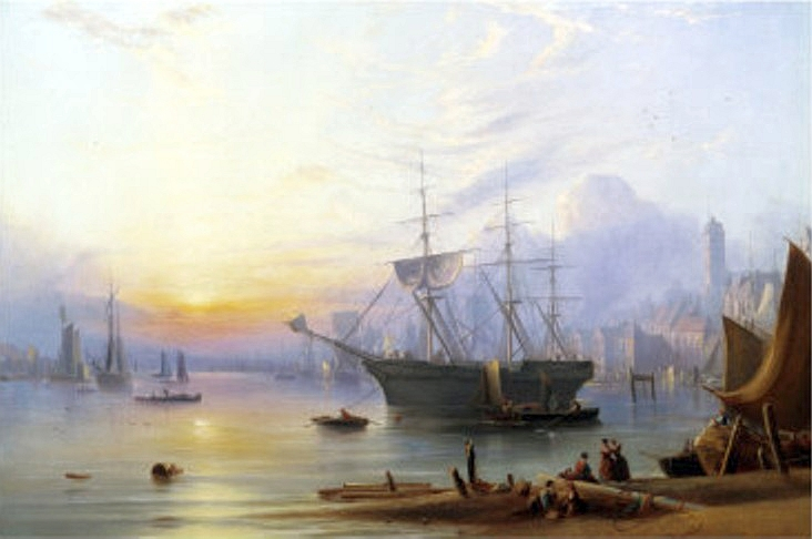 The Harbor At North Shields